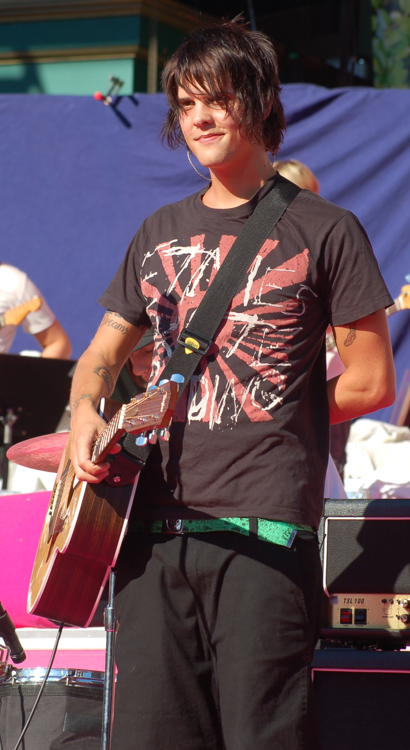 Neverstore at Gröna Lund in Stockholm